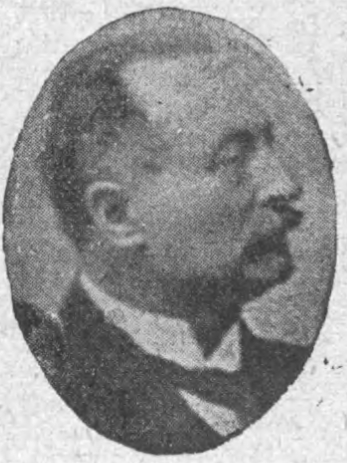 Stanisław Głąbiński - as Polish MP in 1919